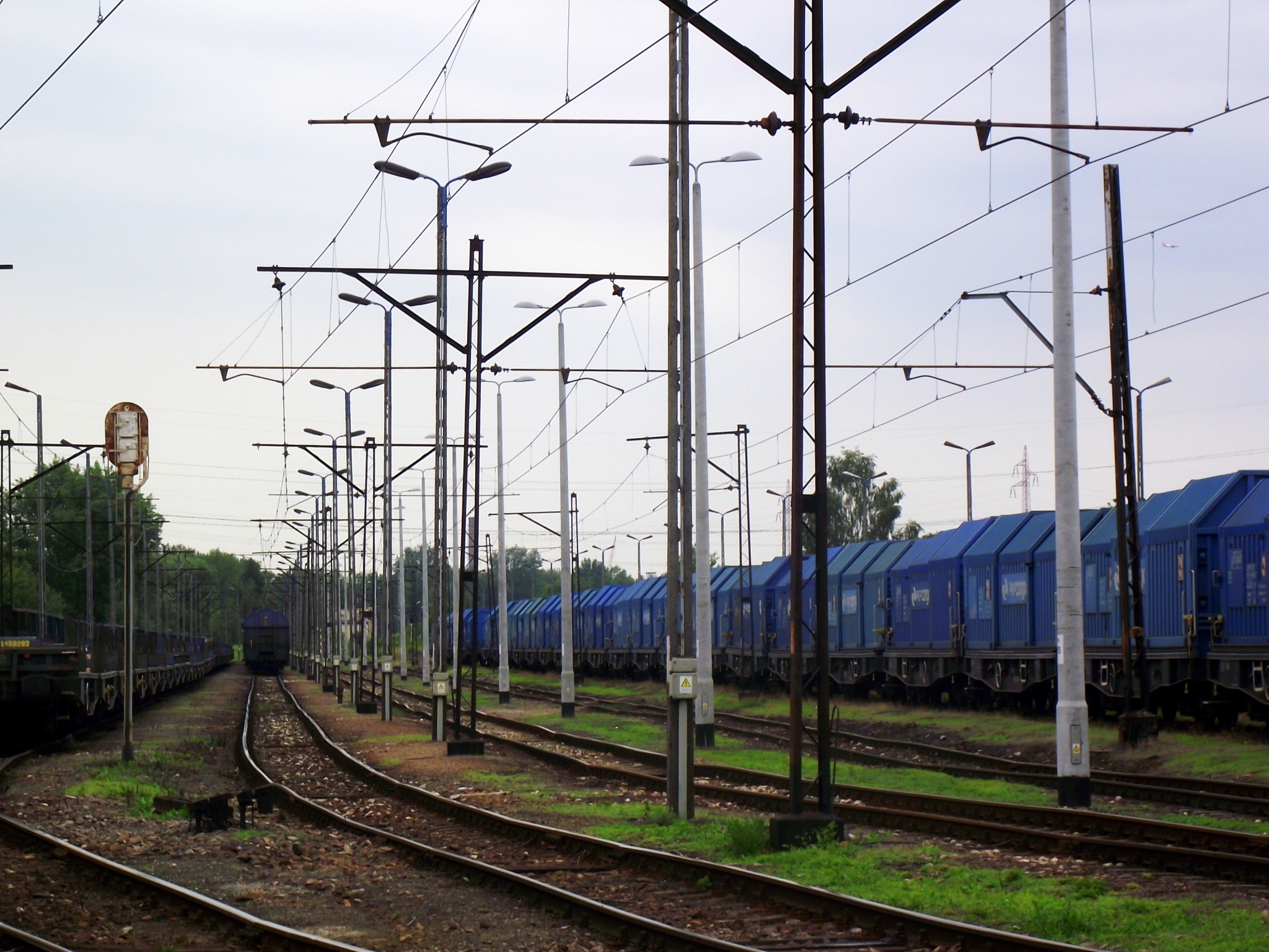 The goods station Kraków-Nowa Huta.